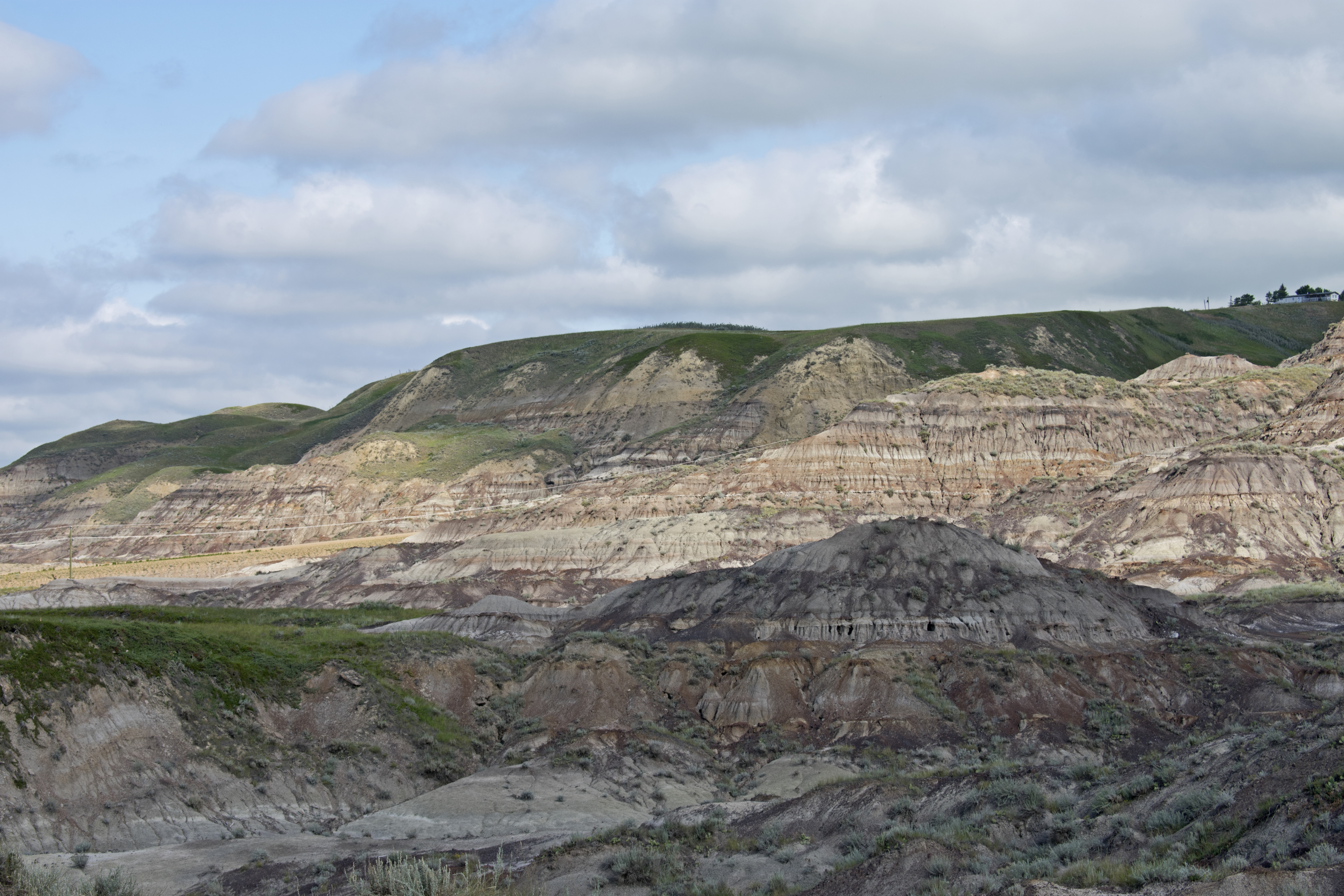 Badlands from the interpretive trail behind the Tyrrell Museum, Midland Provincial Park